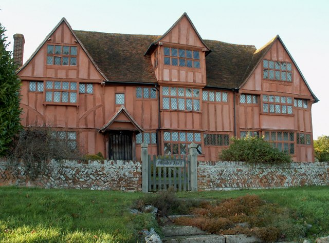 A view of Monks Hall in Low Street, Glemsford